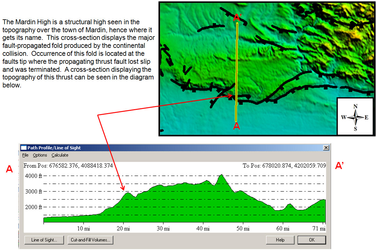 Mardin High